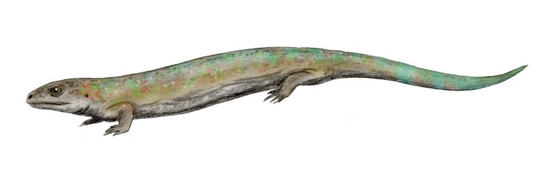 Westlothiana lizziae, perhaps the oldest known amniota, Lower Carboniferous of Scotland, pencil drawing